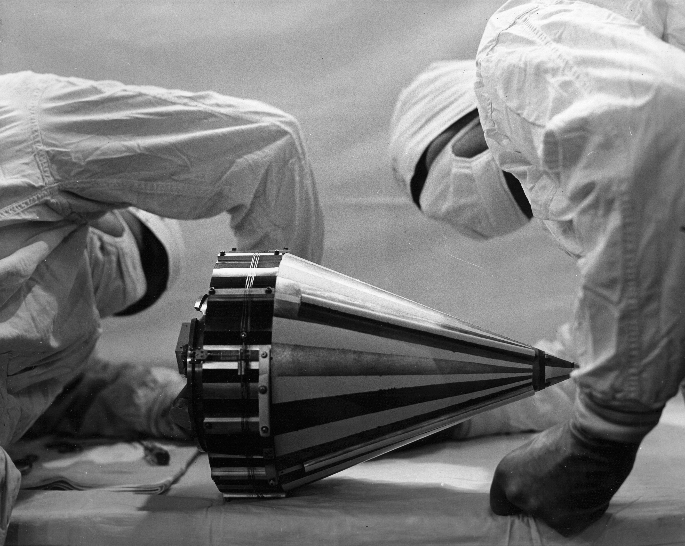 Looking more like surgeons, these technicians wearing "cleanroom" attire inspect the Pioneer III probe before shipping it to Cape Canaveral, Florida. Pioneer III was launched on December 6, 1958 aboard a Juno II rocket at the Atlantic Missile Range, Cape Canaveral, Florida. The mission objectives were to measure the radiation intensity of the Van Allen radiation belt, test long range communication systems, the launch vehicle and other subsystems. The Juno II failed to reach proper orbital escape velocity. The probe re-entered the Earth's atmosphere on December 7th ending its brief mission.